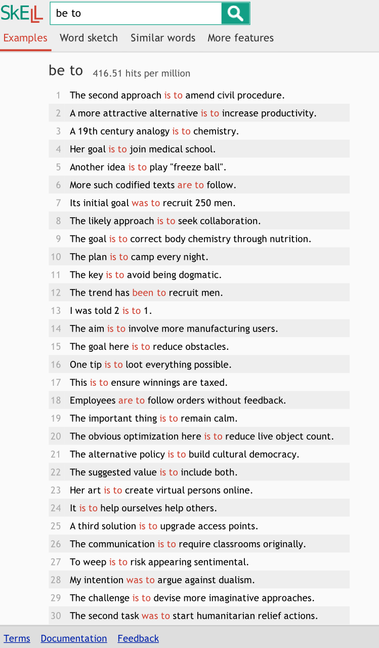 Demonstrating the simple search in SkELL.